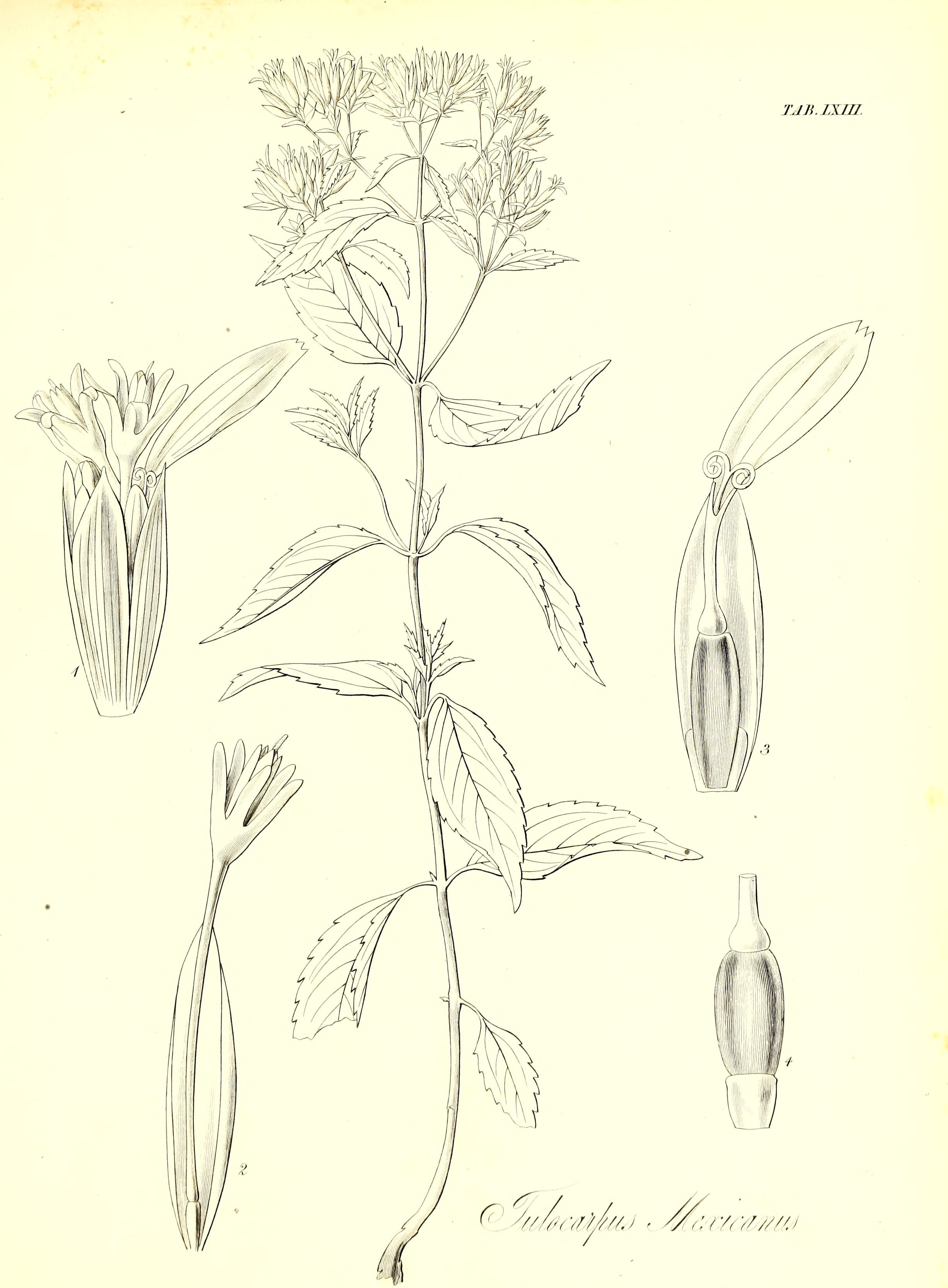 Title: The botany of Captain Beechey's voyage; comprising an acount of the plants collected by Messrs. Lay and Collie, and other officers of the expedition, during the voyage to the Pacific and Behring's Strait, performed in His Majesty's ship Blossom, under the command of Captain F. W. Beechey ... in the years 1825, 26, 27, and 28 Year: 1841 (1840s) Authors: Hooker, William Jackson, Sir, 1785-1865; Arnott, George Arnott Walker, 1799-1868, joint author; Beechey, Frederick William, 1796-1856 Subjects: Blossom (Ship); Botany; Botany; Botany Publisher: London, H. G. Bohn Text Appearing Before Image: ' Text Appearing After Image: Swan Sc.